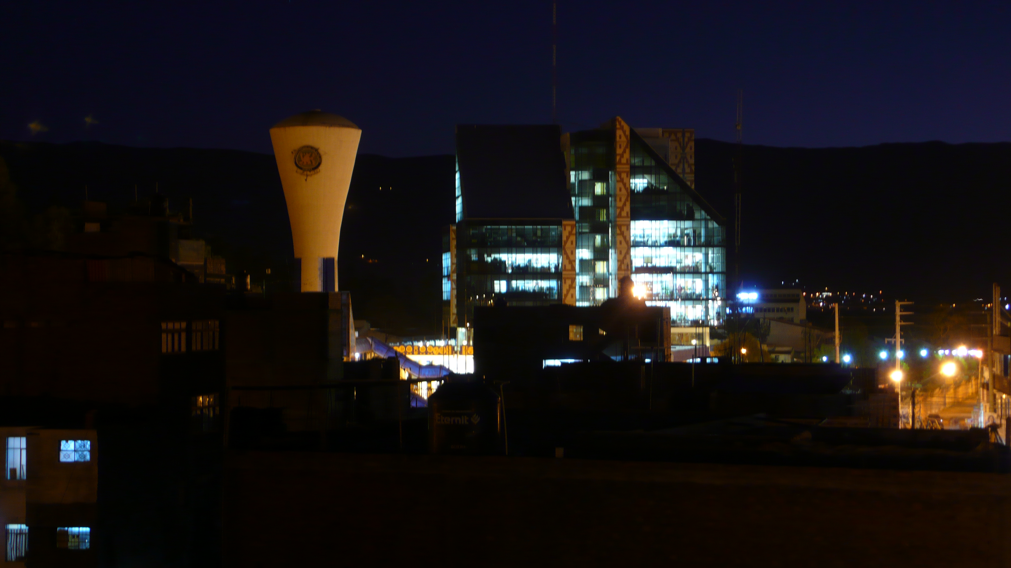 The UNCP's main building